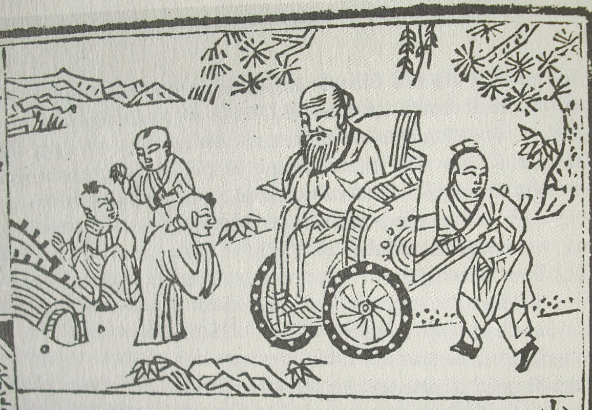 Confucius and children. Note the handcart that is used to transport the sage - presumably, the mode of transport familiar to the early-Qing (1680) artist